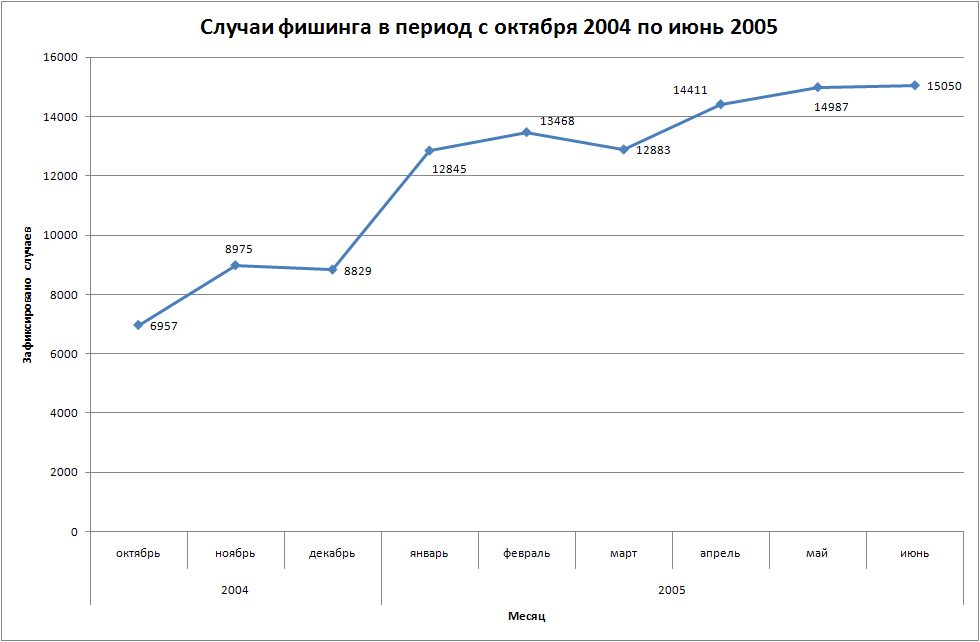 Phishing dynamics